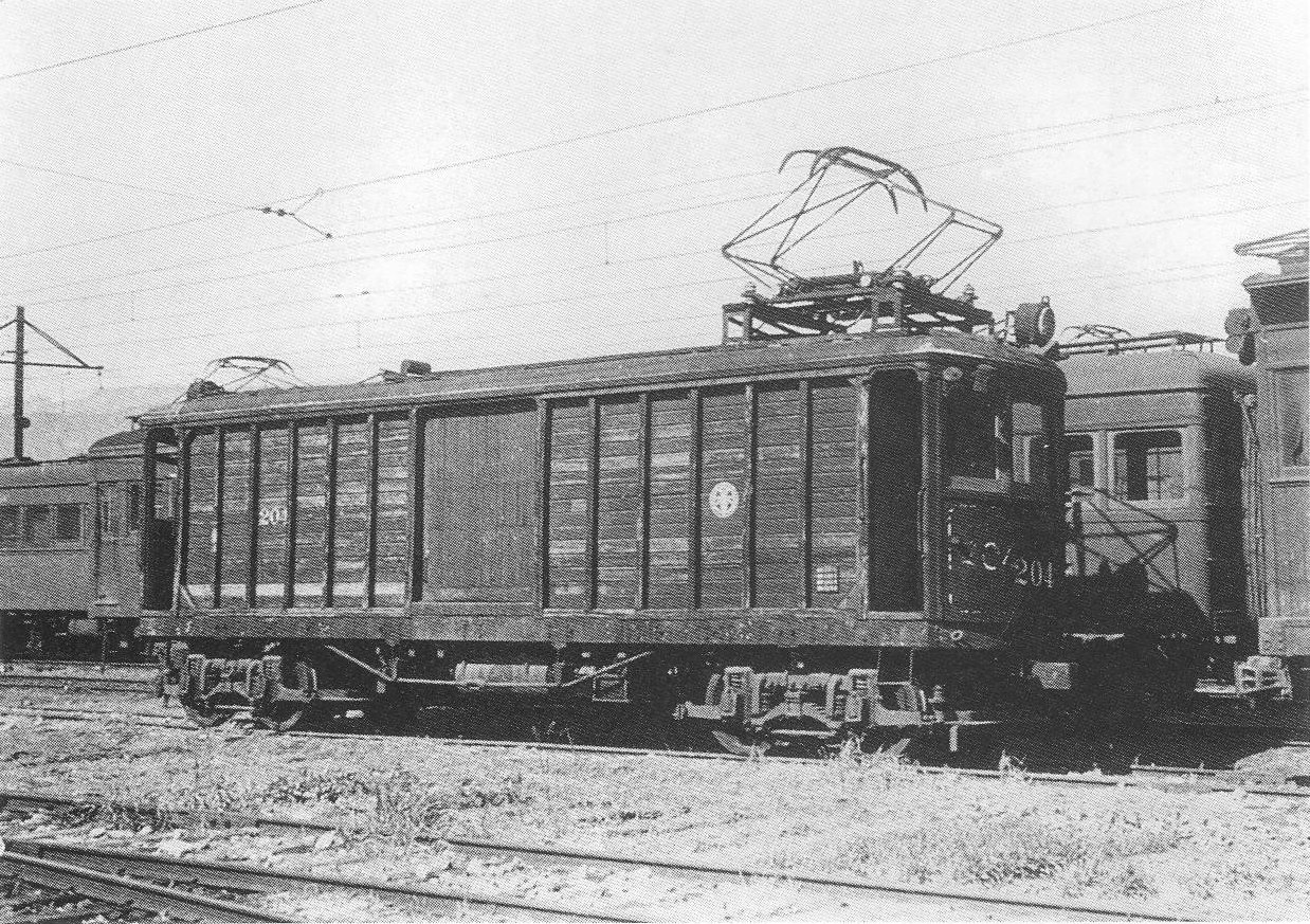 Hankyu Railway No. 204